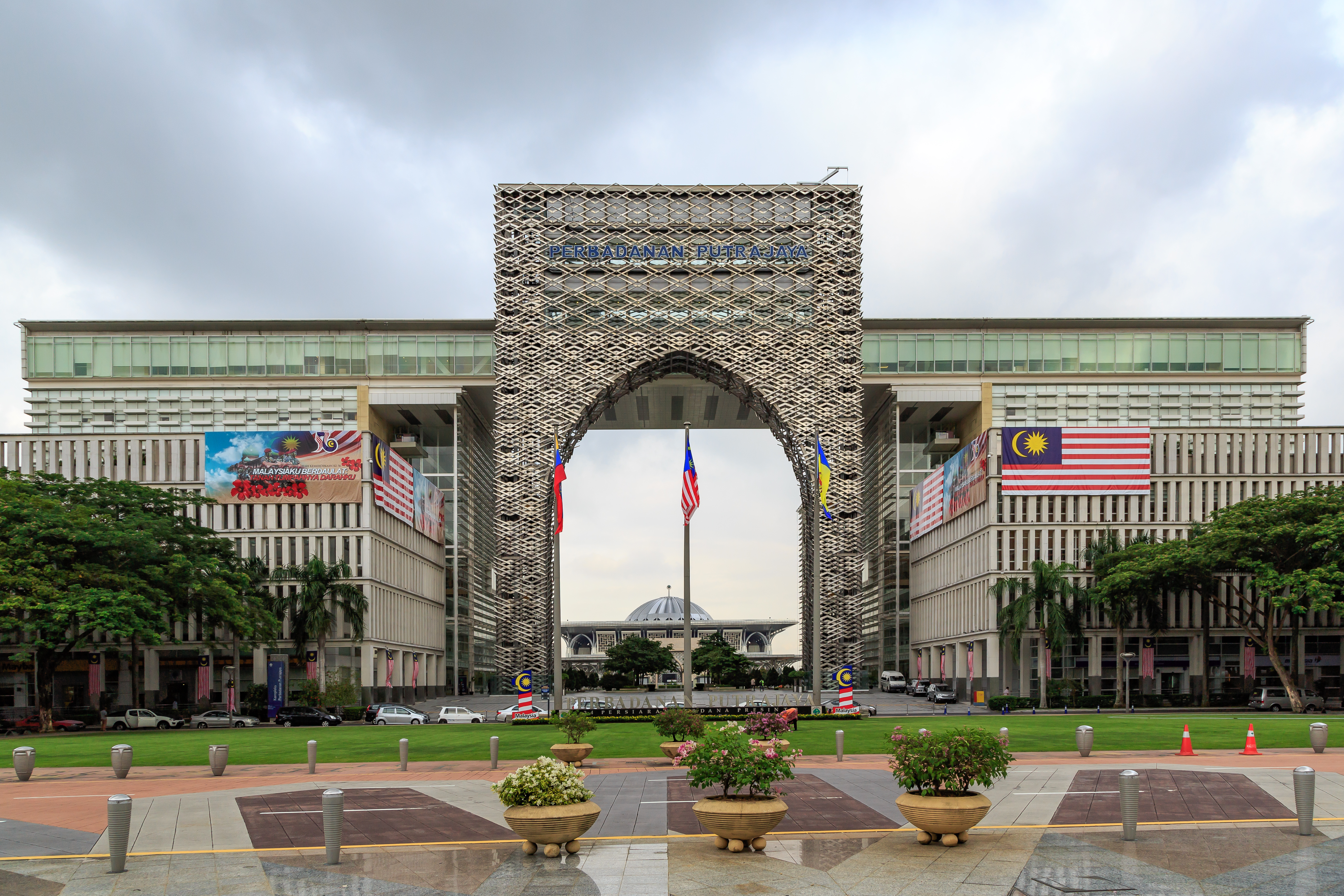 Putrajaya, Malaysia: Perbadanan Putrajaya (Putrajaya Corporation). Behind the gate: Accessway to the Tuanku Mizan Zainal Abidin Mosque